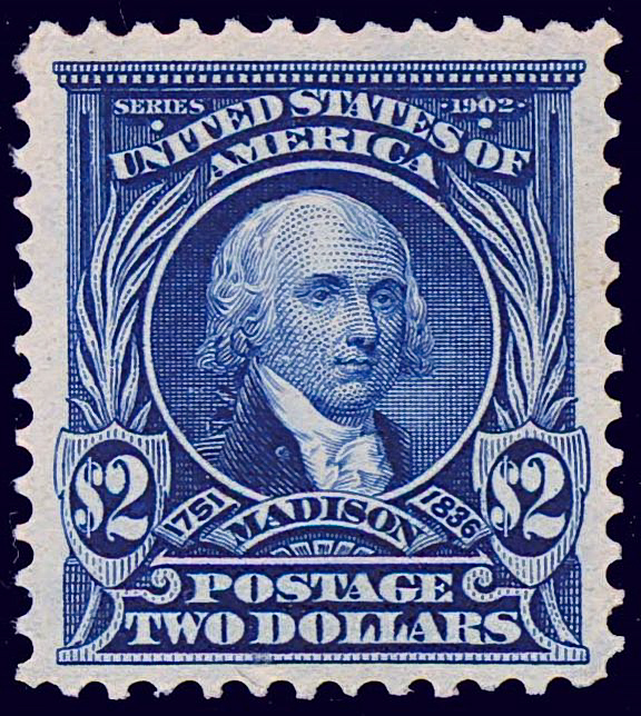 US Postage stamp: James Madison, Issue of 1903, $2, ultramarine-blue